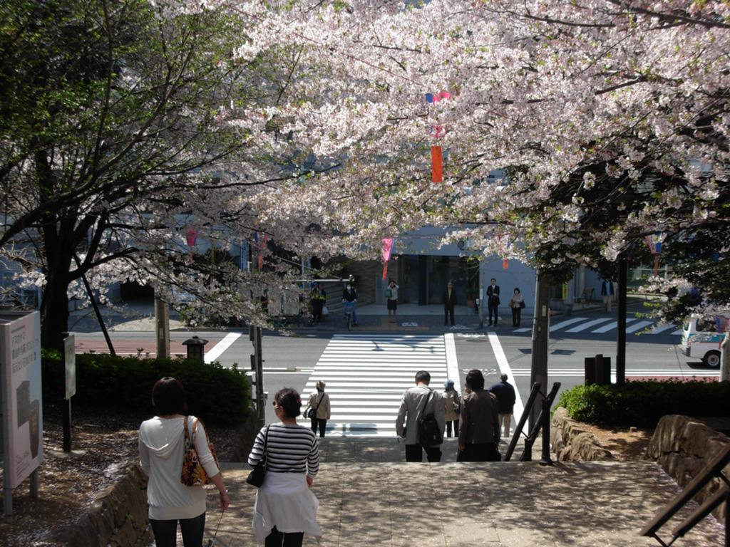 View from Asukayama Park